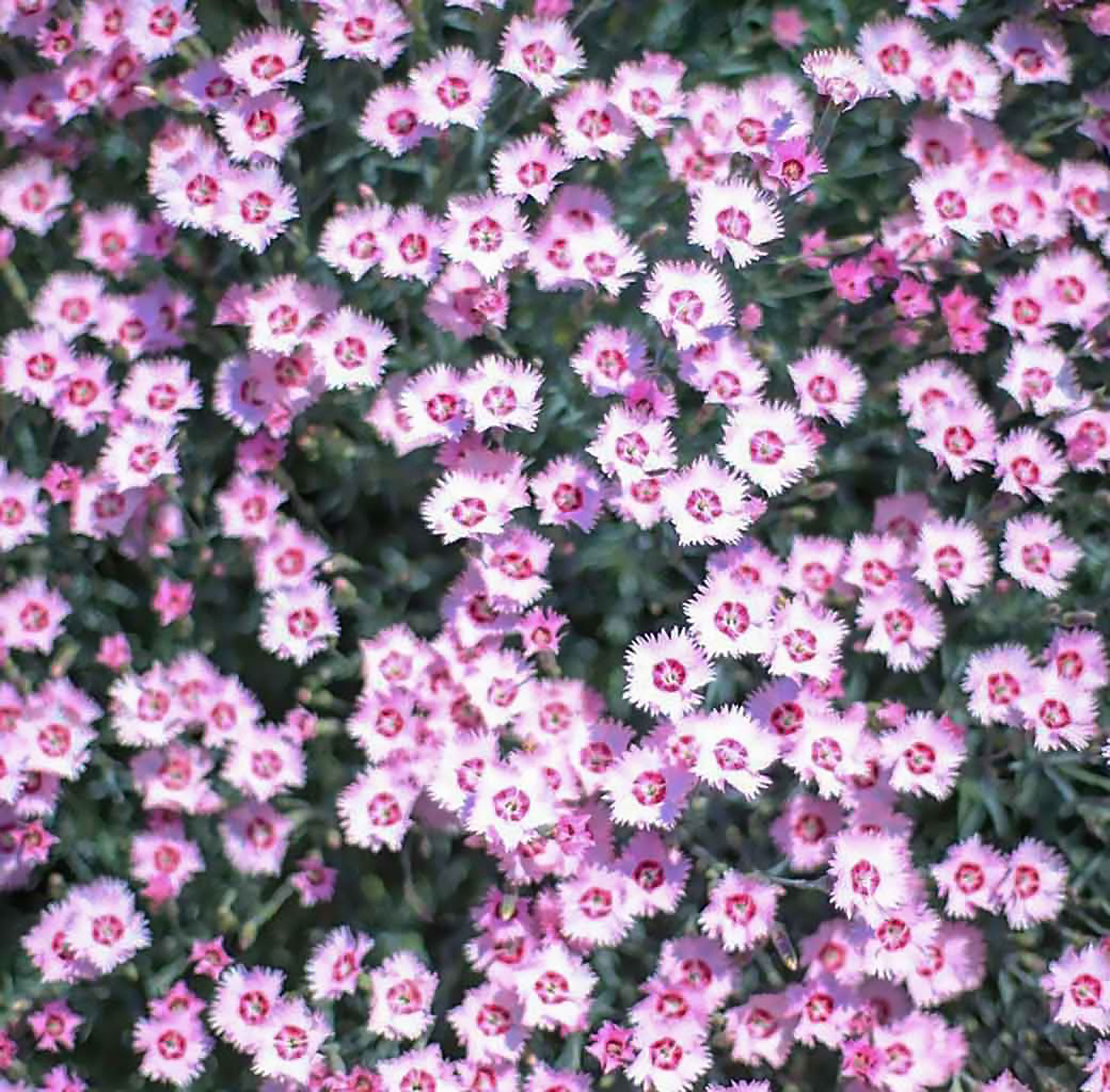 Pink flowers that have bloomed in Wolmyeongdong